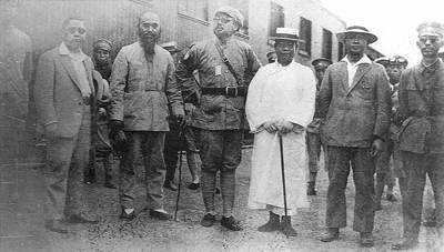 Zhengzhou meeting in 1927 between leaders of the Wuhan government and the 'Guominjun' Northwest faction.